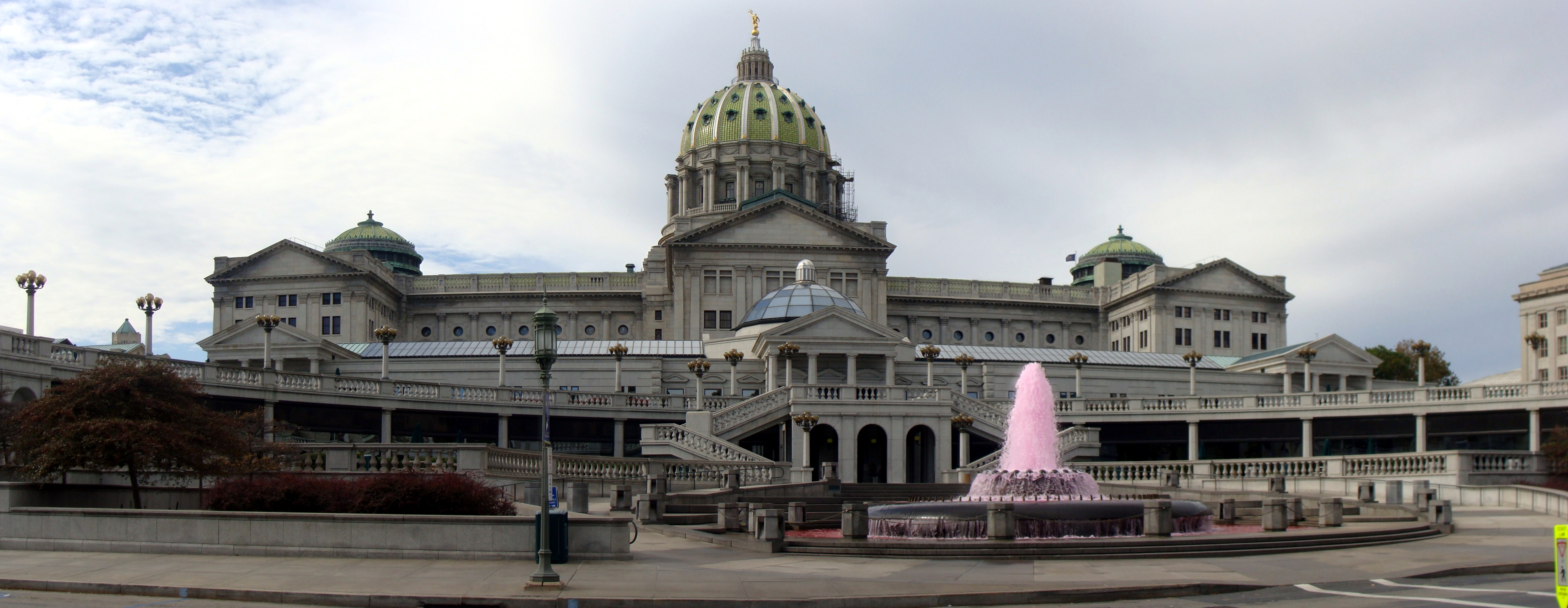 Panorama of the East Wing of the Pennsylvania State Capitol in Harrisburg, Pennsylvania. Originally three horizontal photos.